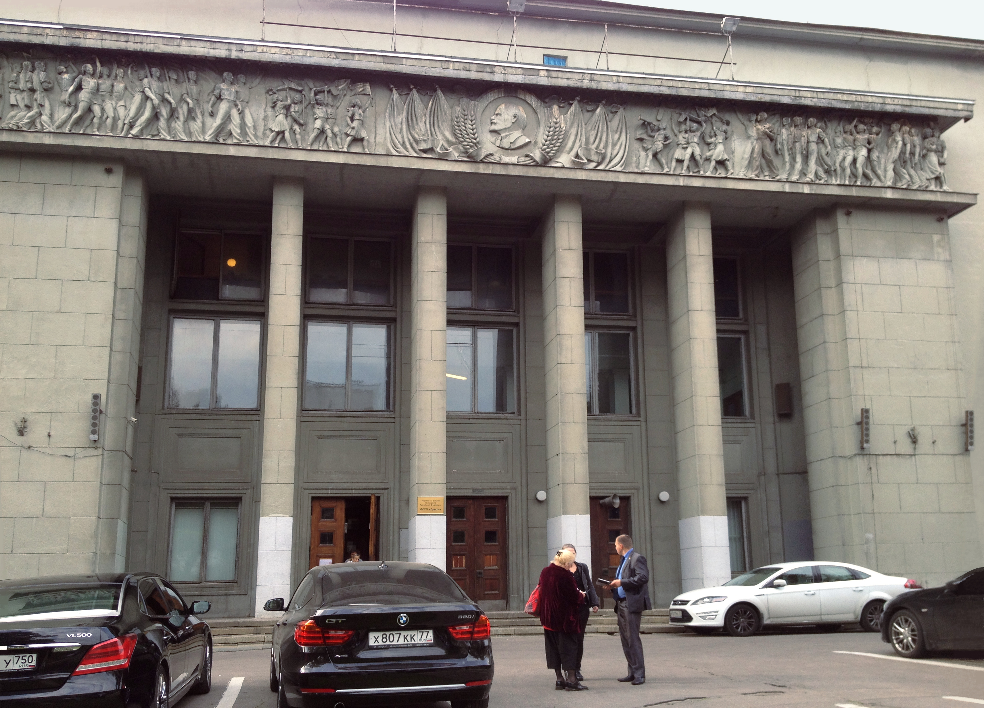 Club of the Pravda Combine, 1937. By architects N. Molotov and N. Chekmotayev, the bas-relief was made by sculptor B. Valentinov. Address: Pravda St., house 21, building 1, Begovoy, Northern District, Moscow